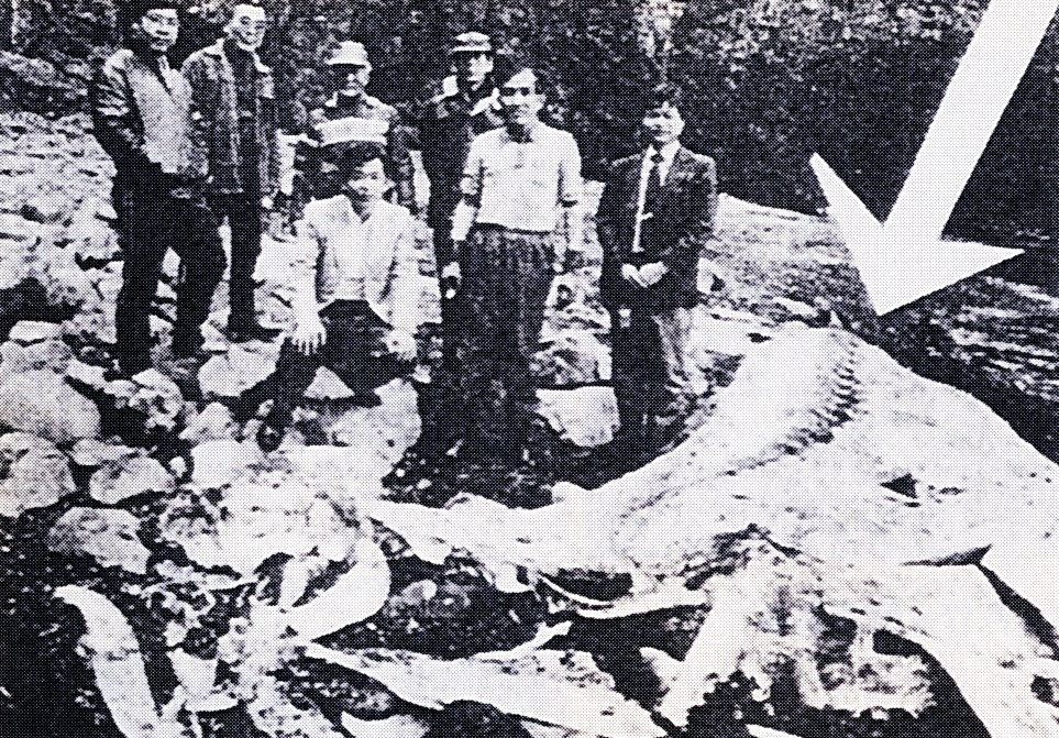 A picture showing "Chisshi", a beached basking shark that the people named after "Nessy".